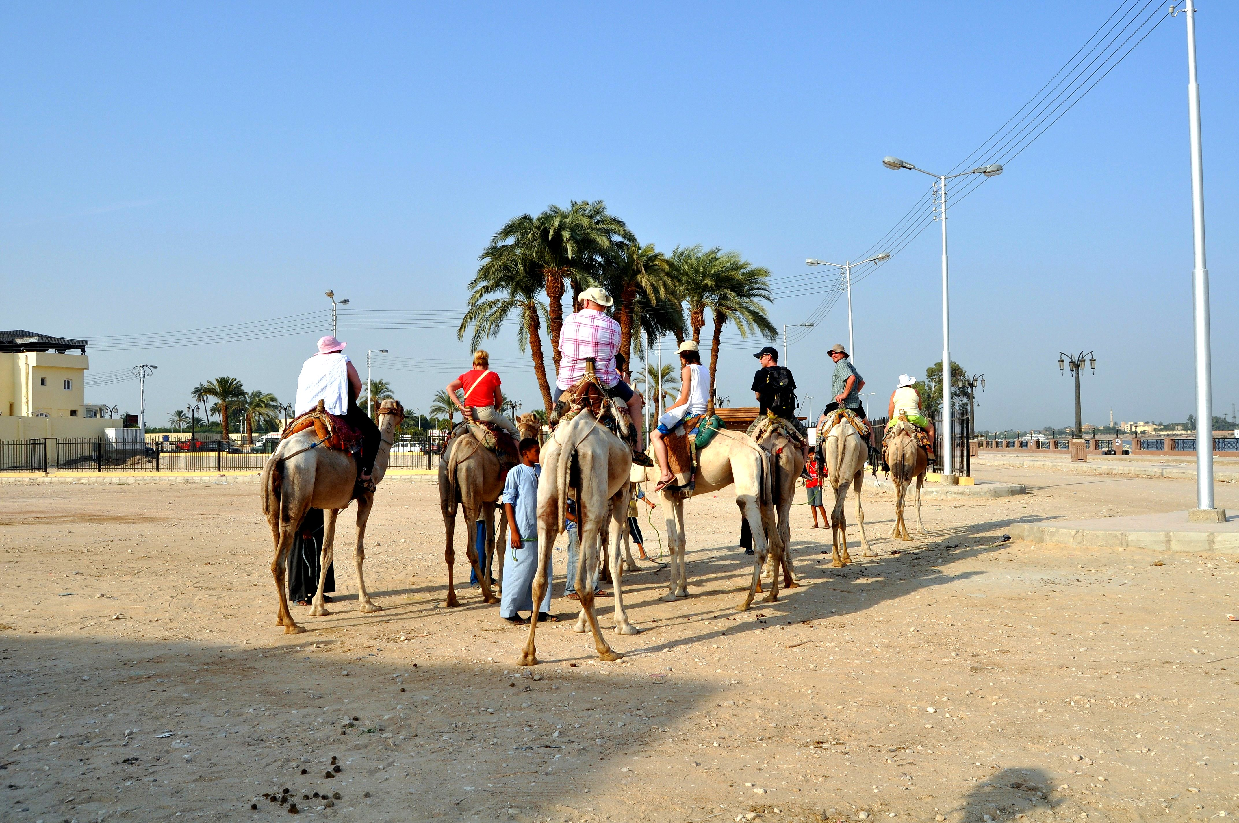 Very interesting place of fantastic contrast in beauty and mundane.